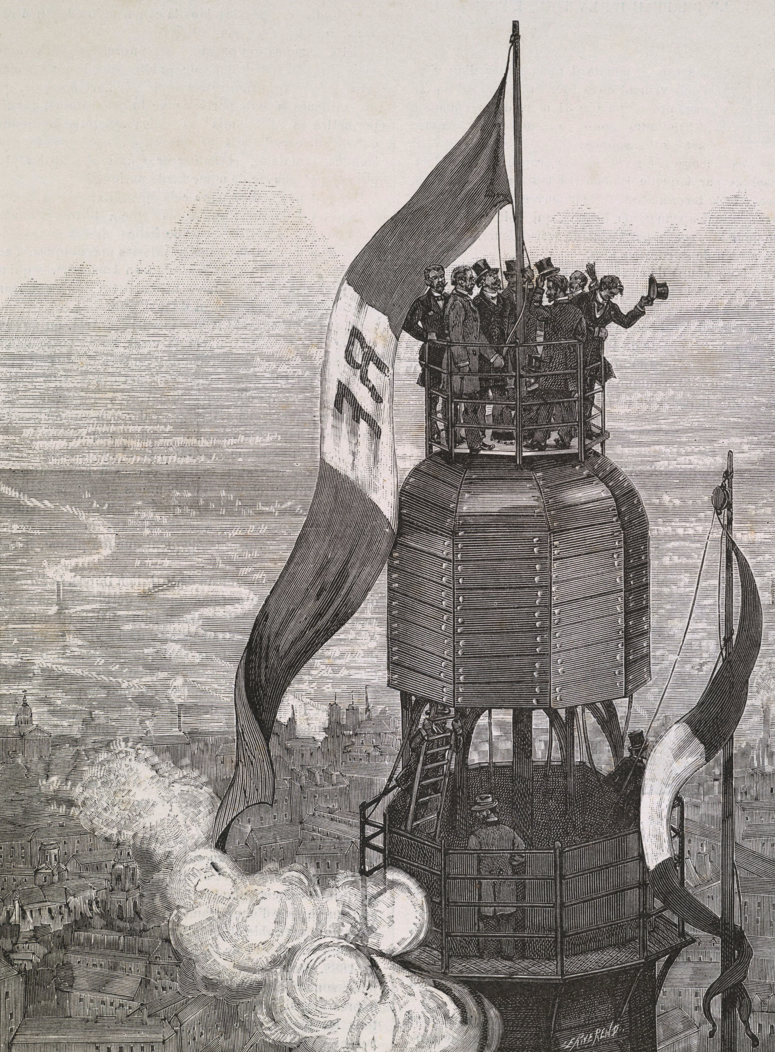 This print represents the French flag being raised at the top of the Eiffel Tower, probably some time in April 1889. The building had been completed on March 31rst, about a month before the beginning of the exhibit in May. One can assume that Gustave Eiffel is among the men standing on the platform by the flag.